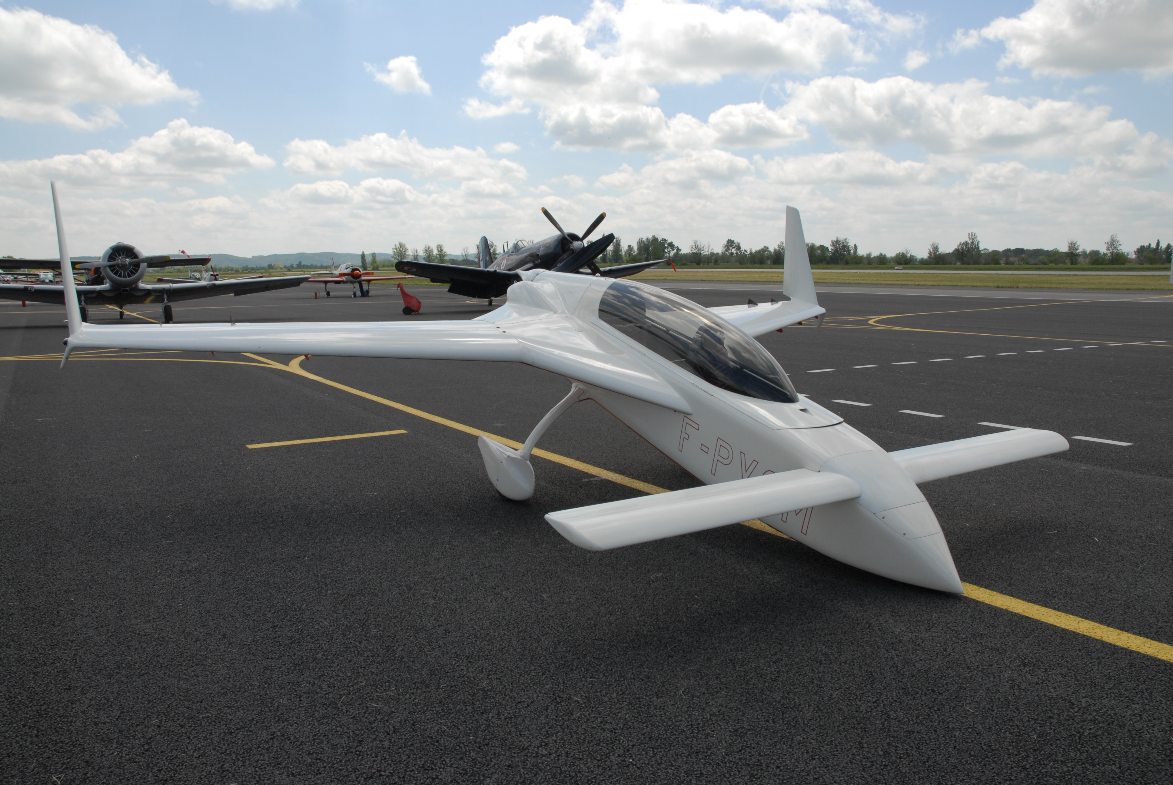 Rutan VariEze Manufacturer (homebuilt) Model Rutan VariEze Type tourism Characteristics composite, canard Registration ID F-PYSM Owner Weber Real Based in Colmar Houssen